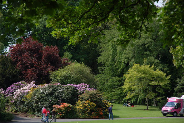 Late Spring flowers, Botanic Gardens, Belfast A colourful display of Spring-flowering shrubs – typical of many municipal parks - anywhere.